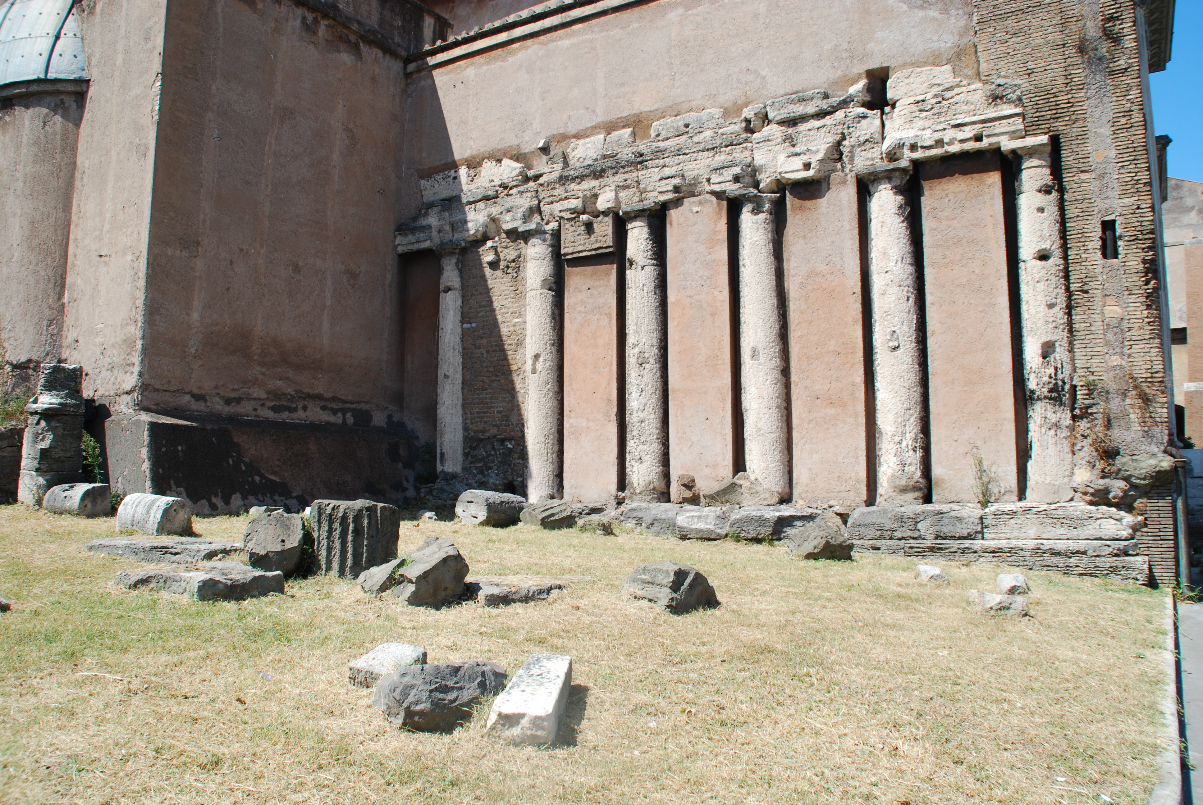 South tempel of Forum Holitorium. Columns used in building the San Nicola in Carcere. This is presumably the Temple of Spes (258BC)